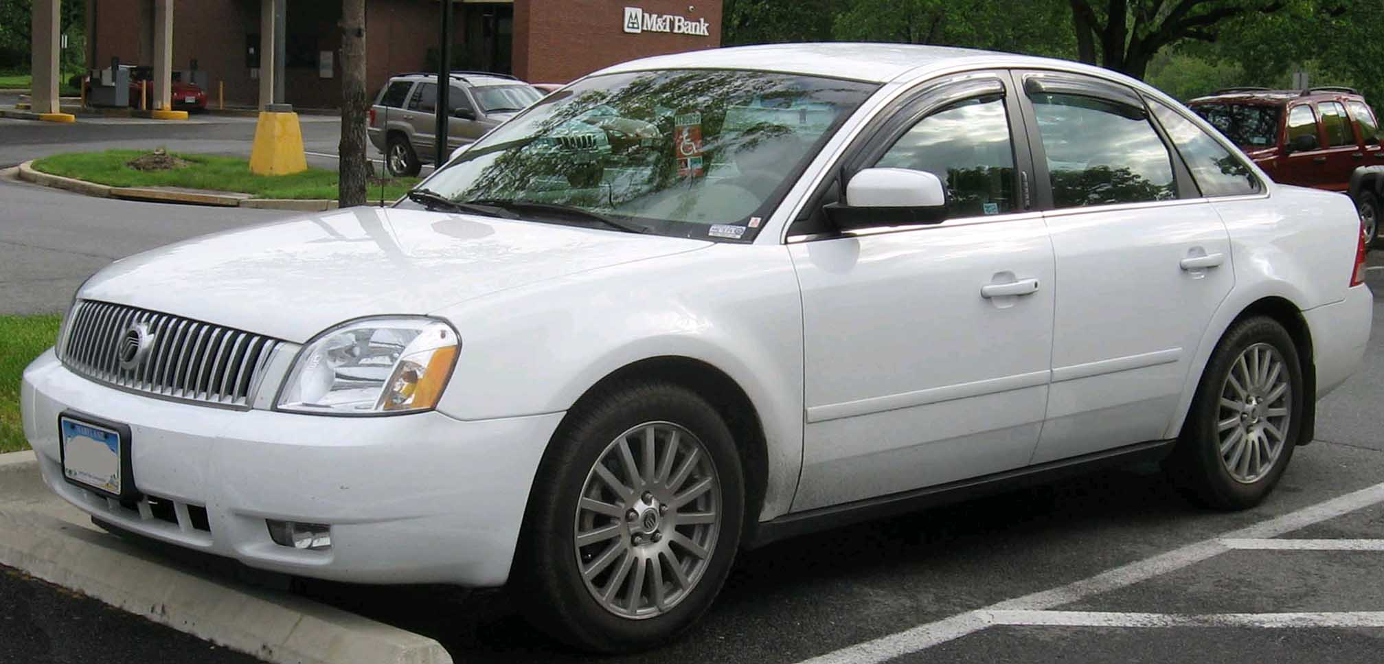 2004-2006 Mercury Montego photographed in Fort Washington, Maryland, USA.